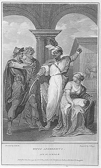 Titus Andronicus: Act IV, Scene 2: Aaron protects his infant son